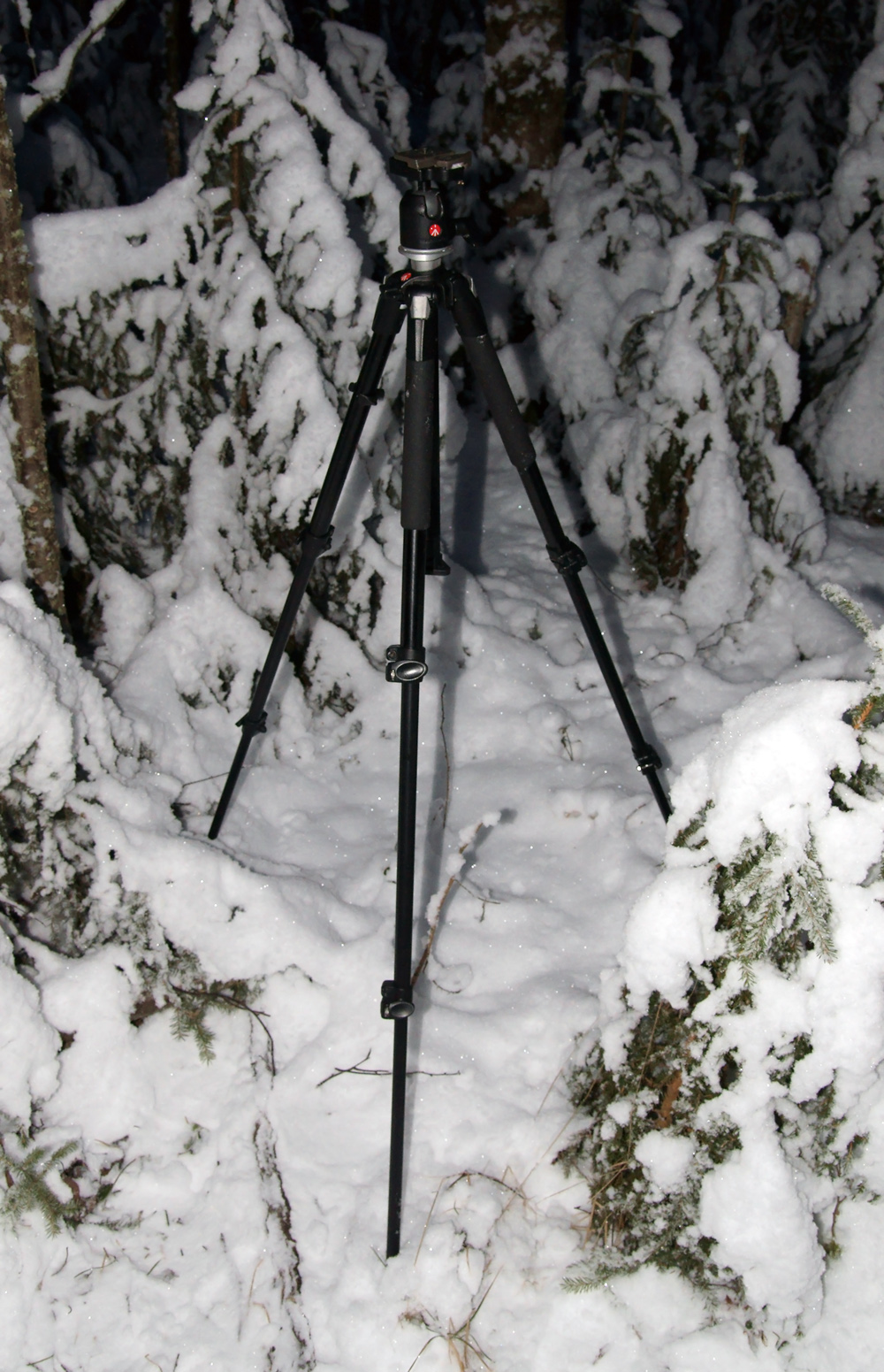 Manfrotto 190XB -tripod in the middle of forest.